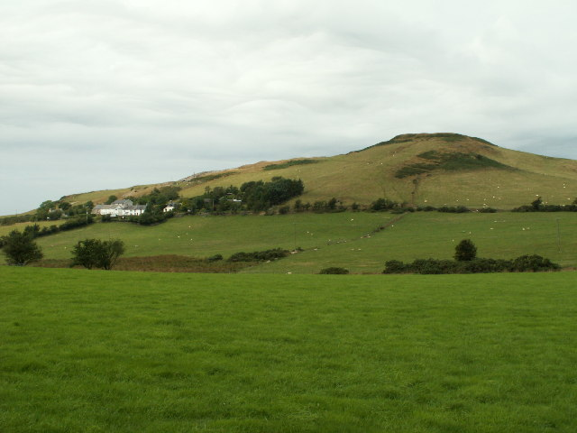 Banc y Darren. The hamlet of Darren below the hill of Banc y Darren. There is a fort on top of the hill. Looking NW.